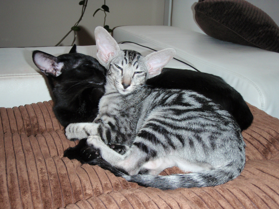 oriental shorthair cats from PHRAYA*CZ cattery